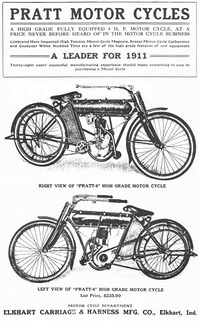 1911 advertment by the Elkhart Carriage & Harness Mfg. Co., Elkhart, Ind. offered is the Pratt-4 motorcycle. This was the only model, and the only year a motorcycle was offered by this company. It was available by mail order.